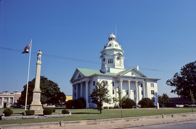 Colquitt County courthouse in Moultrie, Georgia, United States